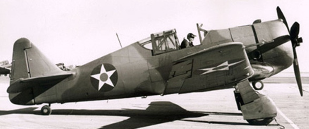 North American P-64 (NA-68) of the USAAC taken at Luke Field in 1941.